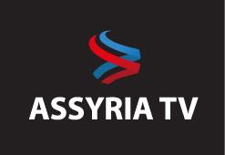 Assyria TV logotype